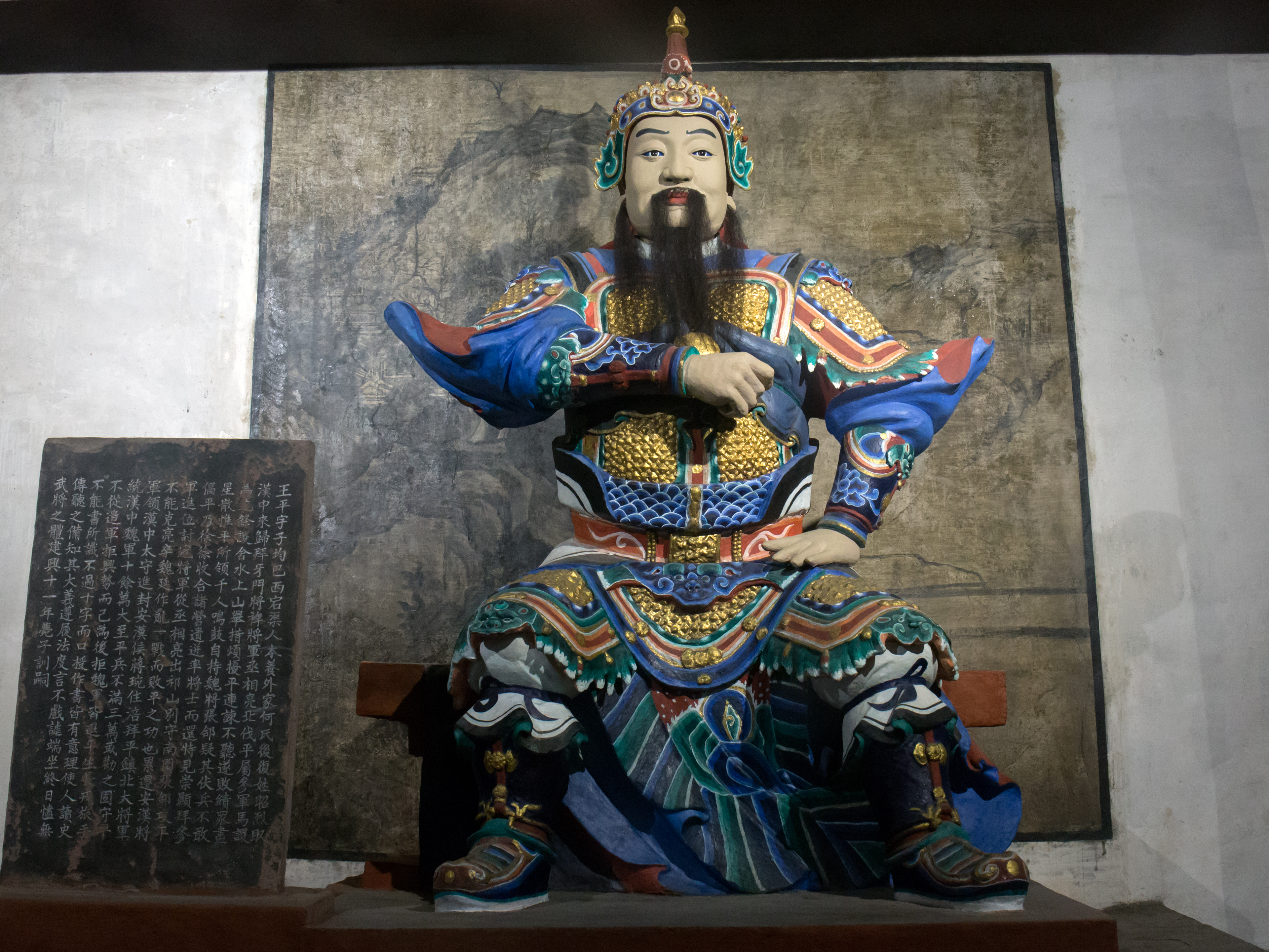 Wang Ping (王平)